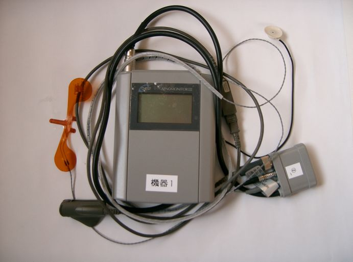 CHEST Apnomonitor III